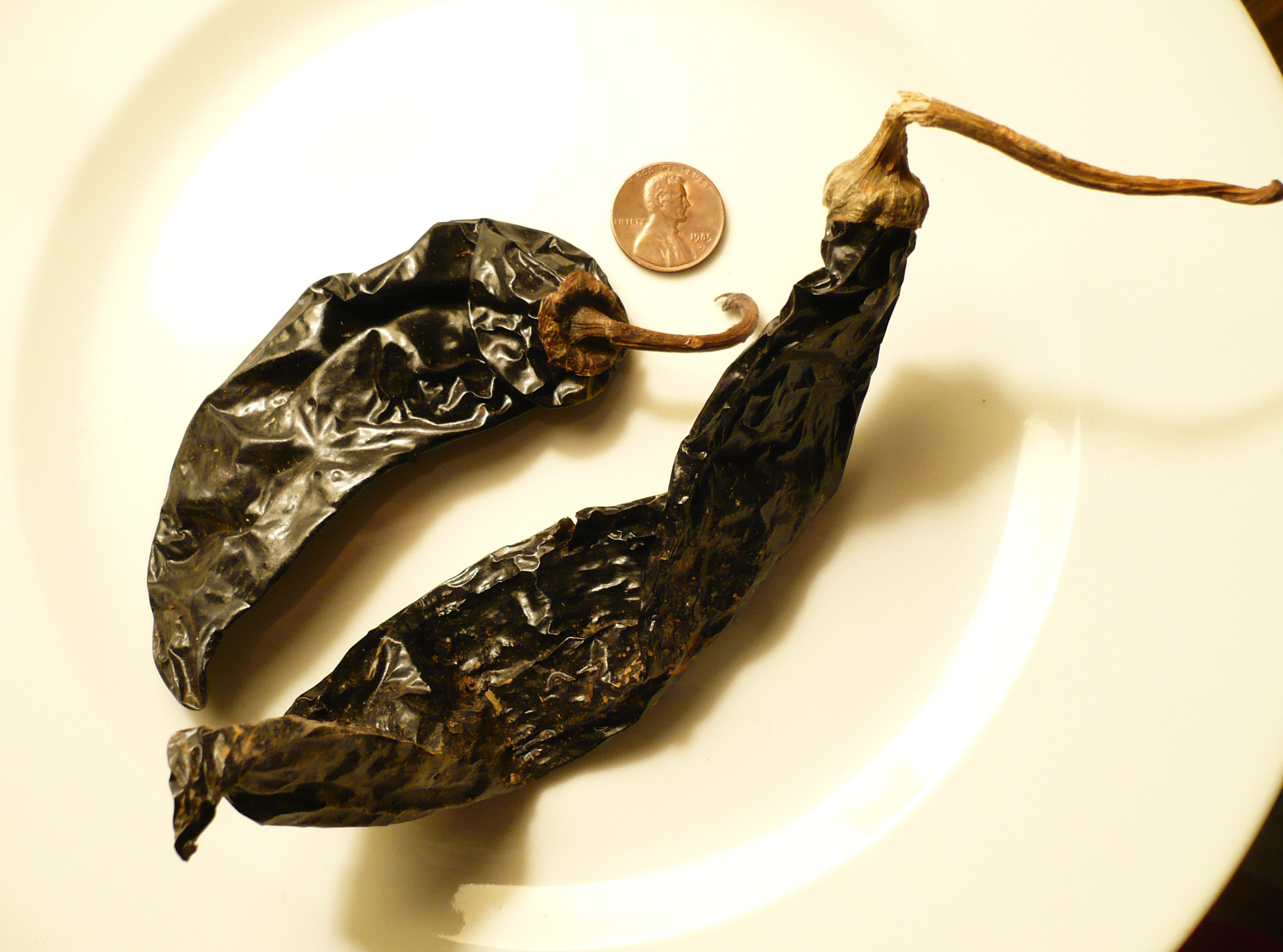 Several dried Pasilla chili peppers, with a United States penny for comparison. Photo taken in Kent, Ohio with a Panasonic Lumix digital camera (model DMC-LS75). Pasilla chilis purchased in a northeast Ohio-area Mexican grocery store.